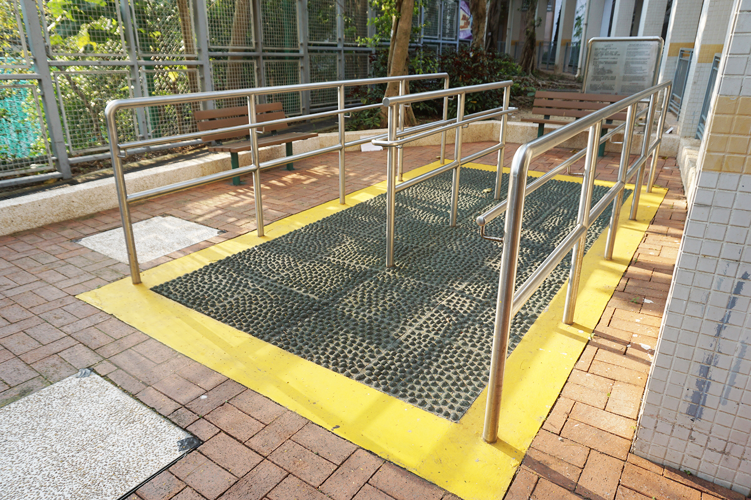 Wan Hon Estate in Kwun Tong, Hong Kong.